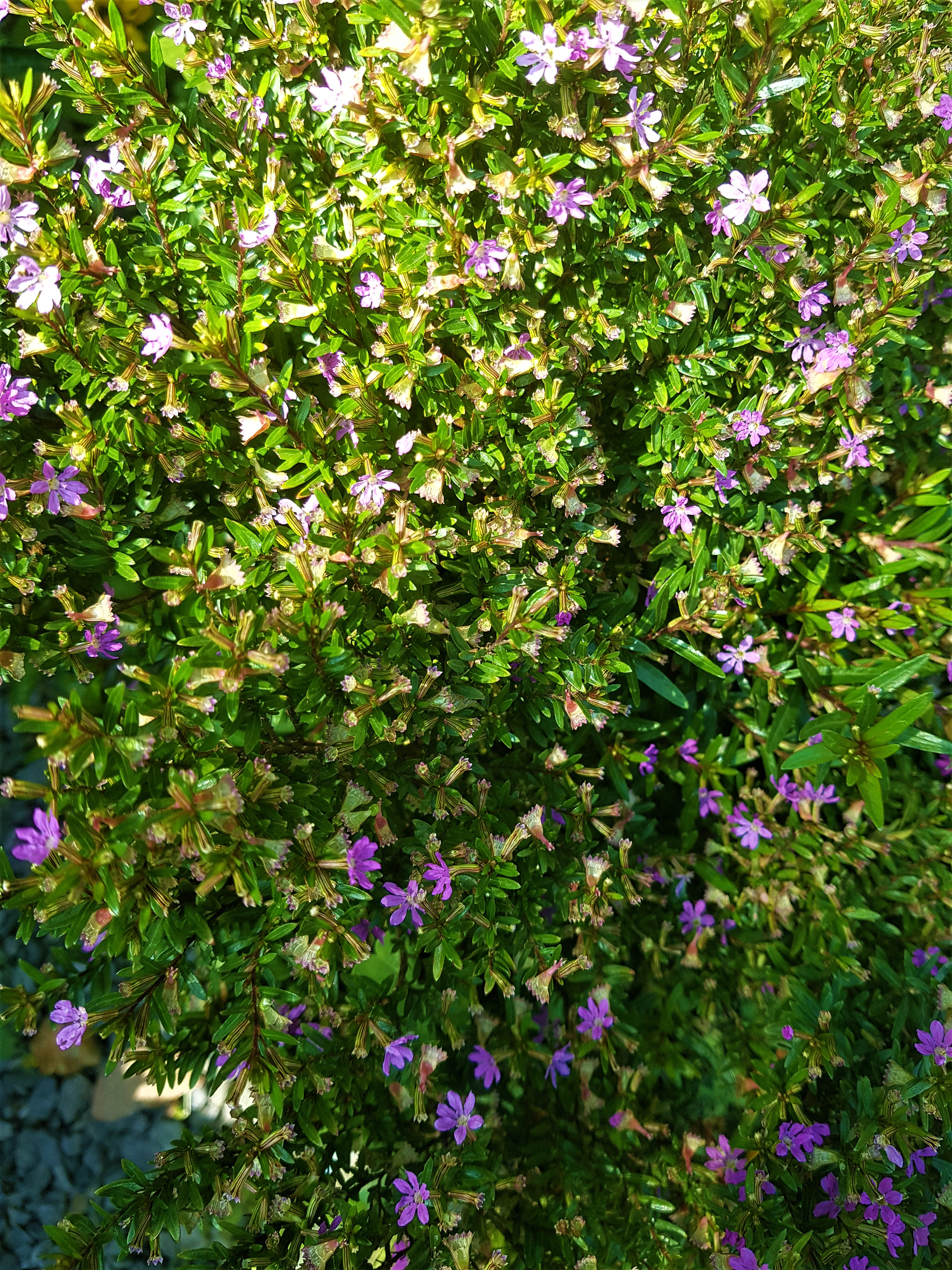 Melastomes